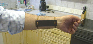 Replica of slate stone wrist-guard from Sewell as it might have been worn.